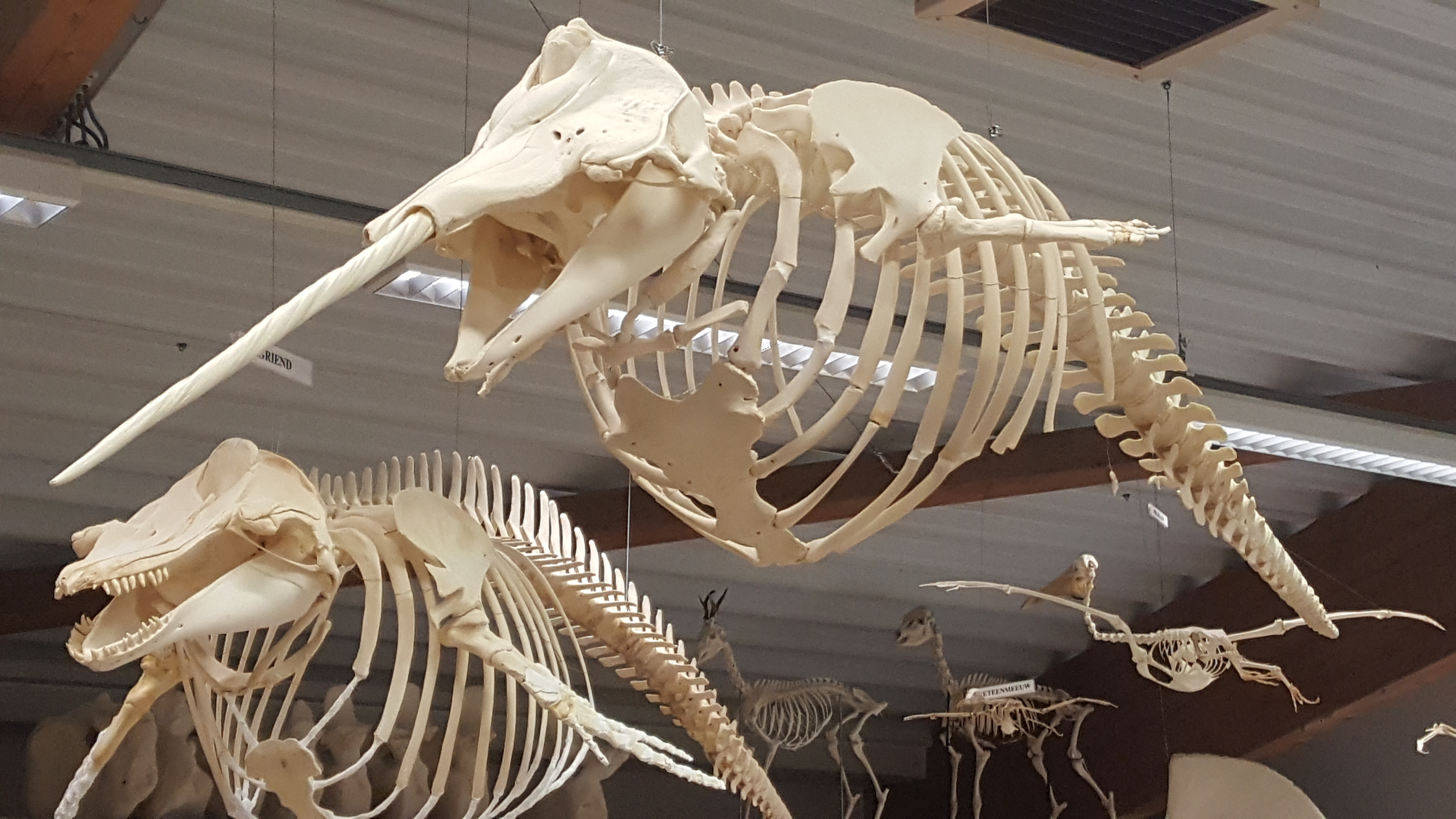 Skeleton of a young male narwhal (Monodon monoceros) at the Museum of Morphology (Faculty of Veterinary Medicine, Ghent University, Belgium).